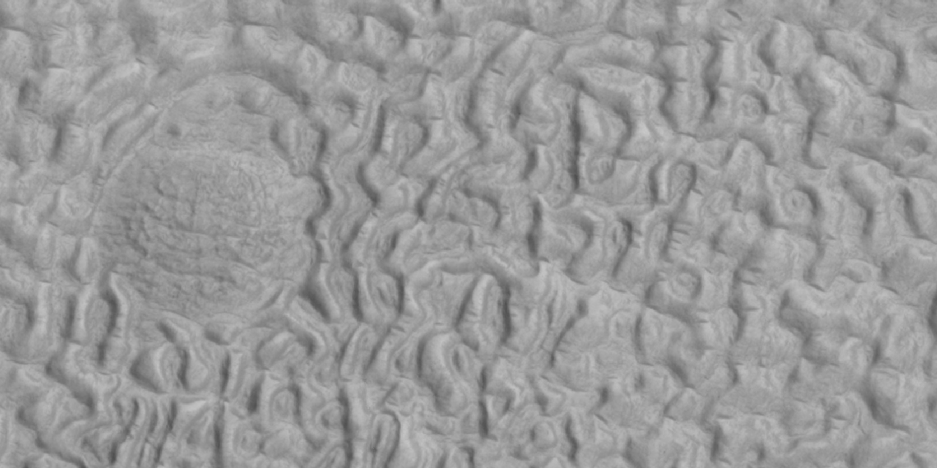 Brain terrain forming in Ismenius Lacus quadrangle, as seen by hirise under HiWish program